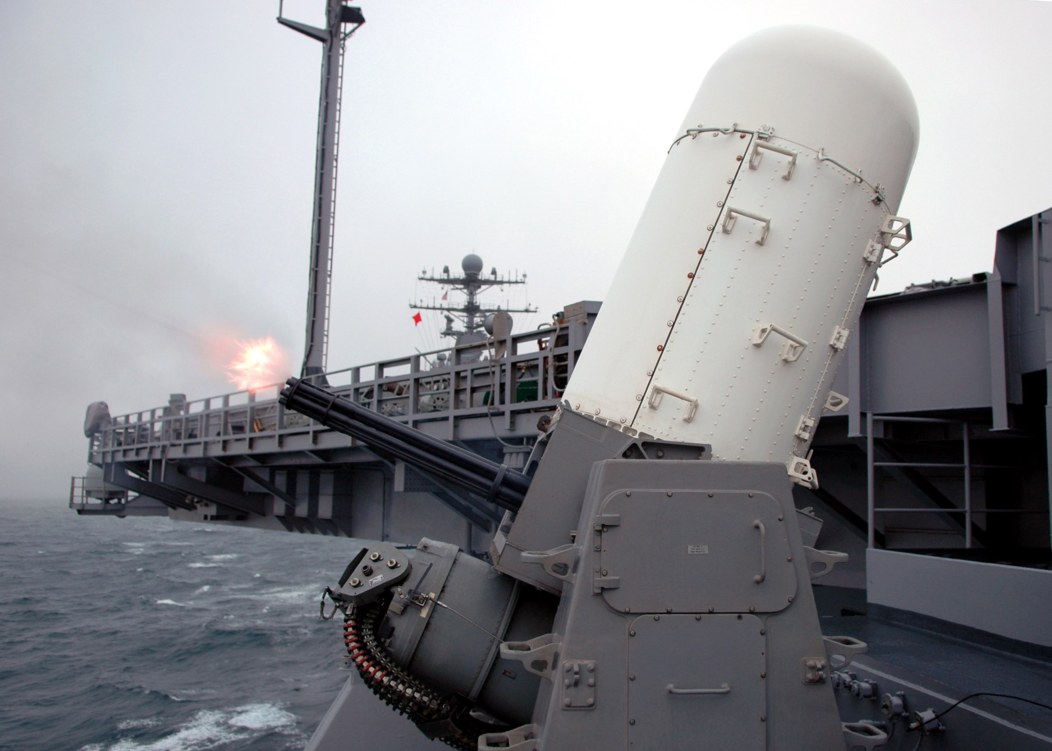 A firing Phalanx CIWS